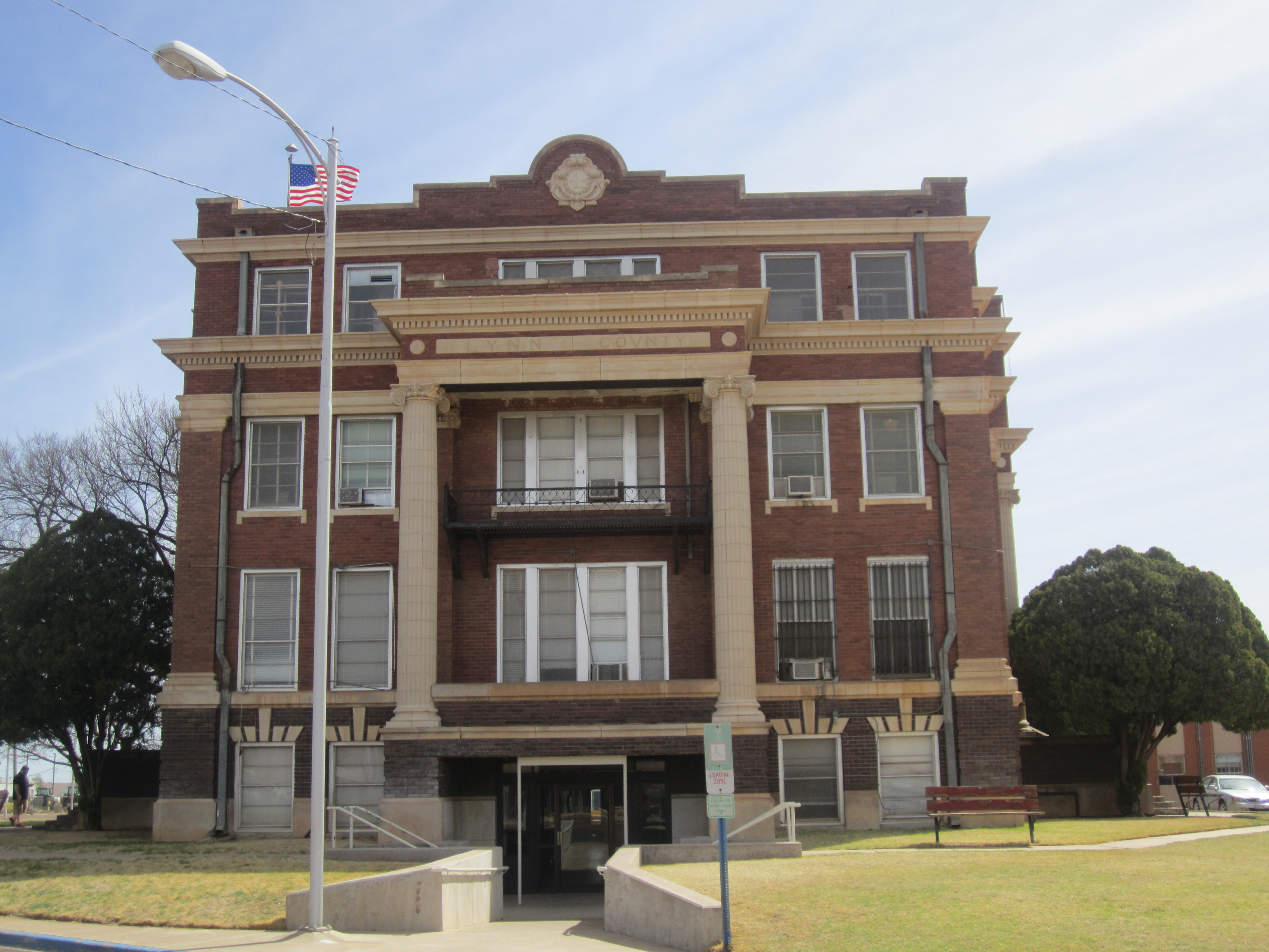 I took photo with Canon camera in Tahoka, TX.